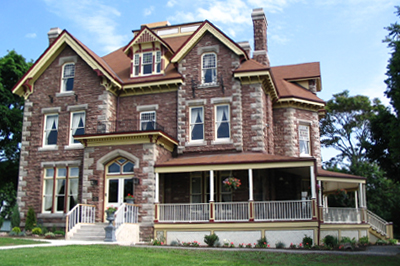 Maplehurst in Thorold Summary N.W.